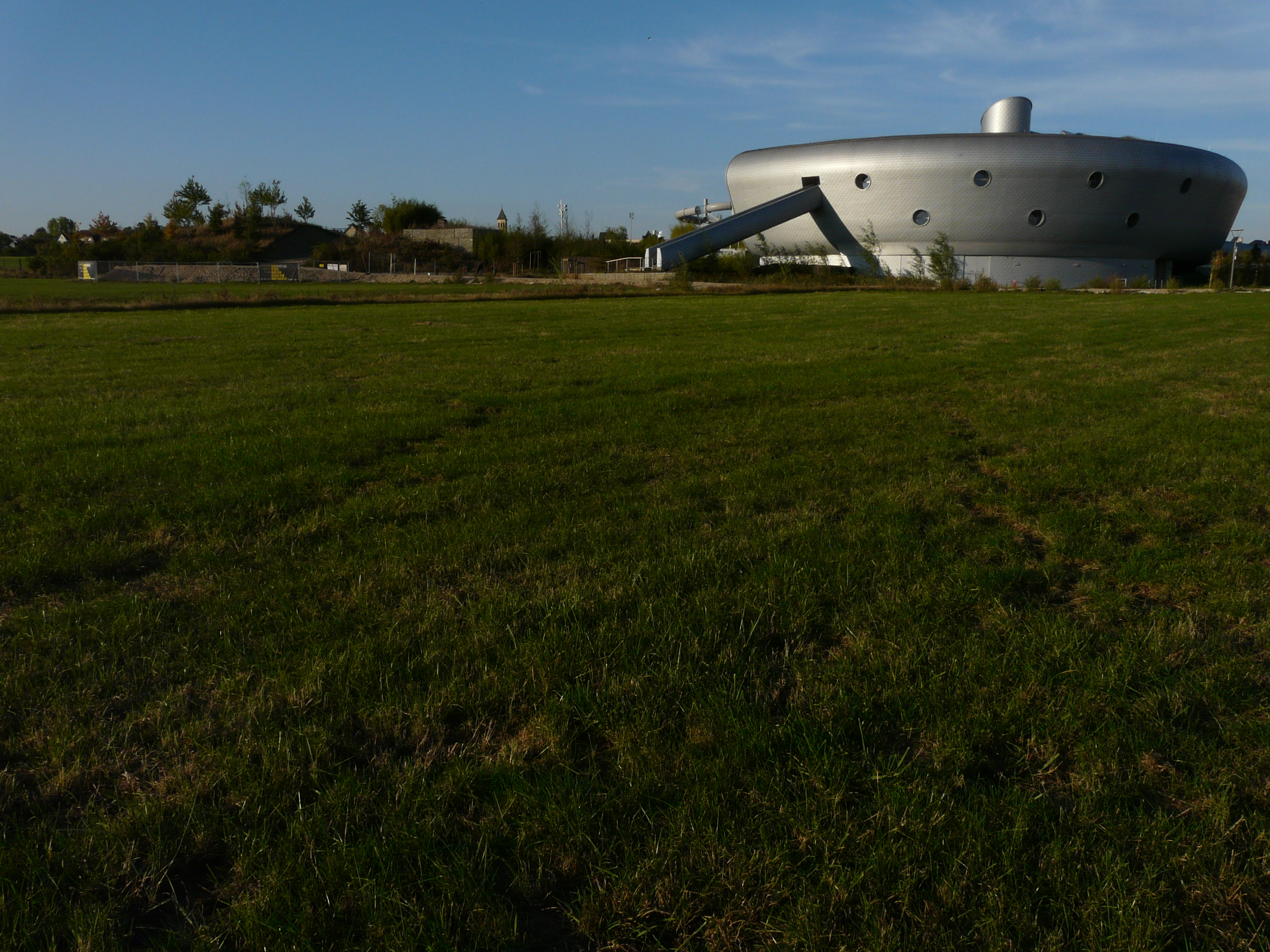 Gallo-Roman remains were found under this field. "Les Thermes" water park in the background. Unknown